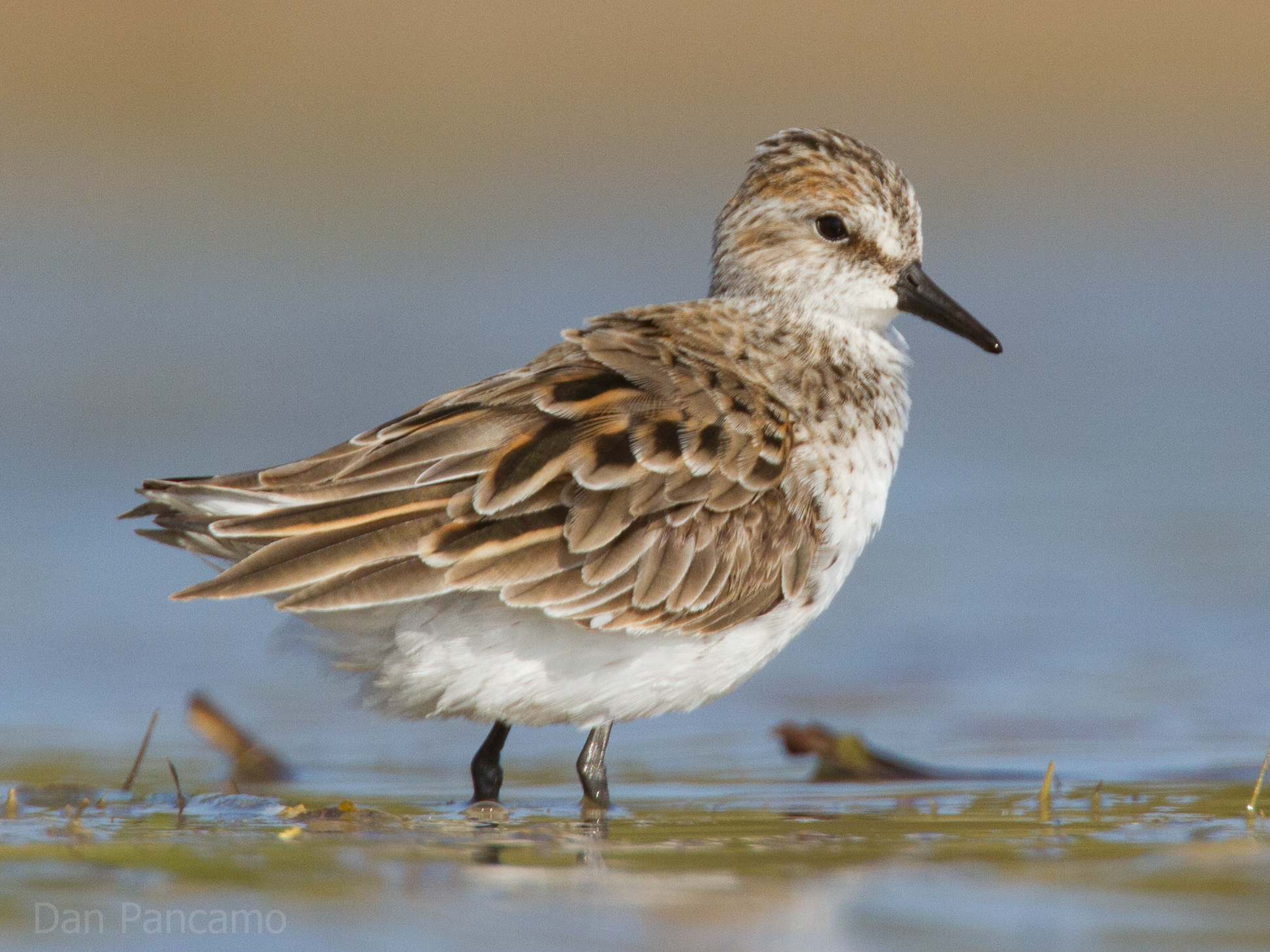 Semipalmated Sandpiper Calidris pusilla, Freeport, Texas, USA